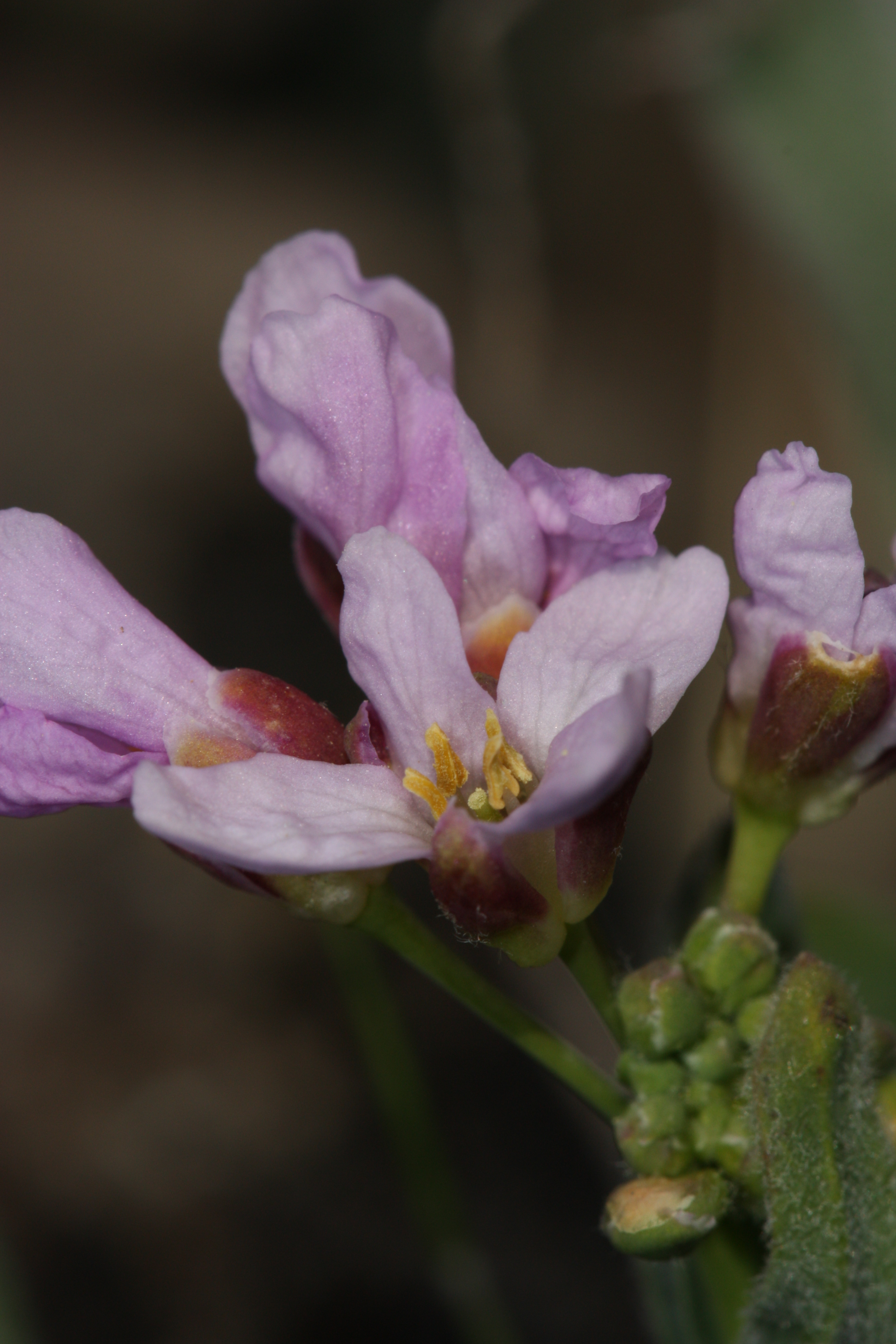 Wallflower Phoenicaulis, Dagger-pod